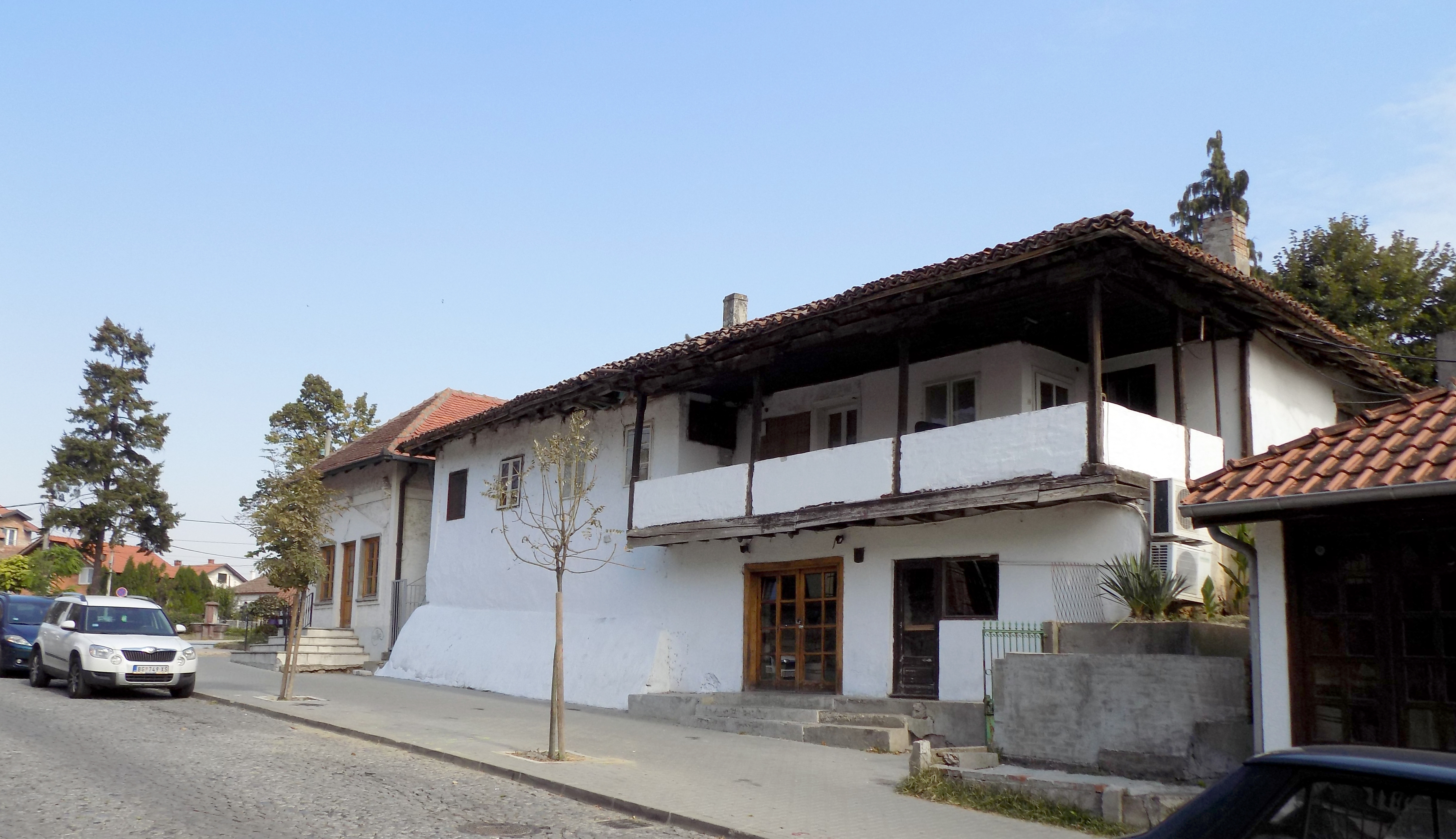 House of Apostolović family in Grocka's Čaršija (Grocka, a town near Belgrade)